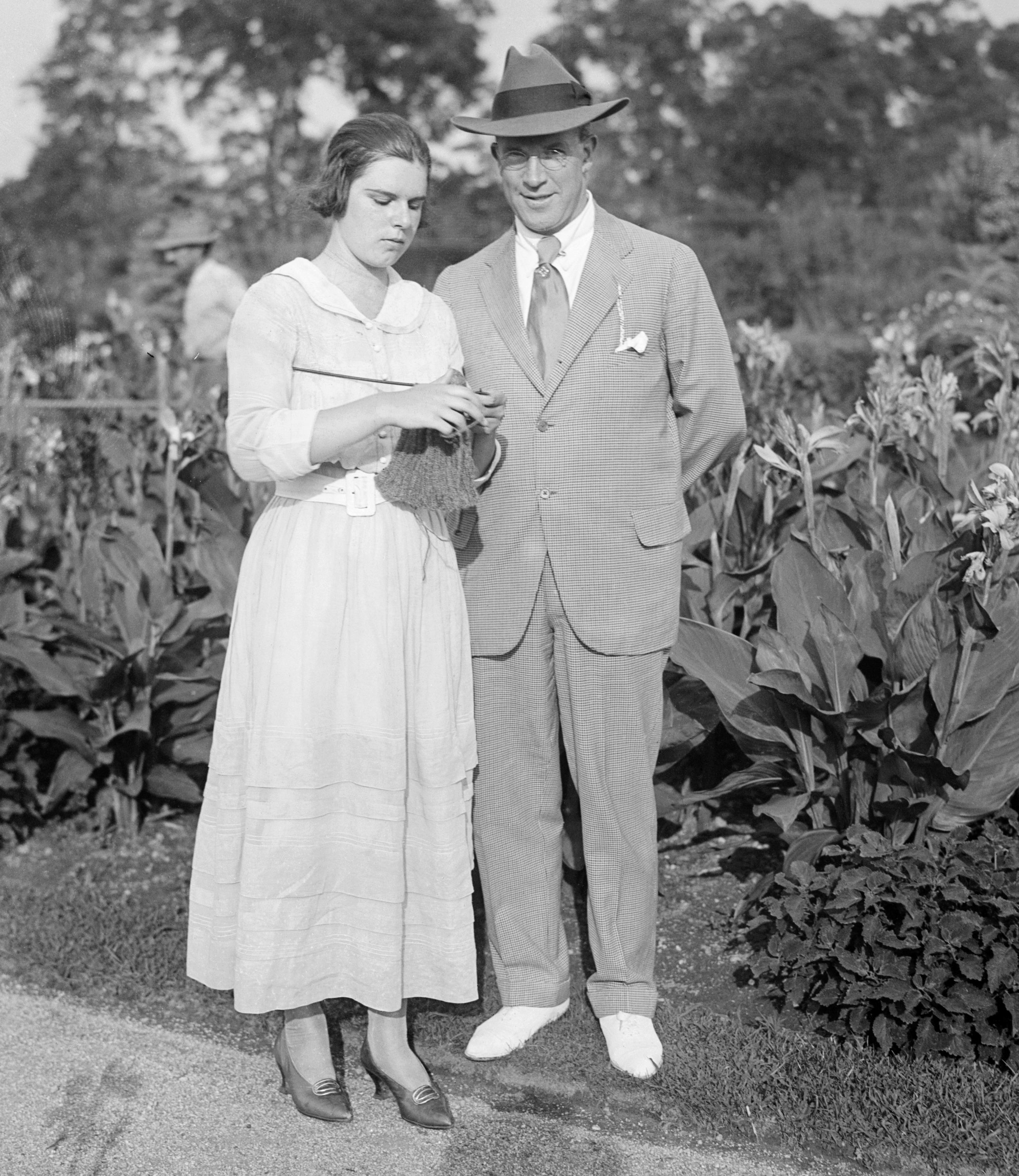 Photograph of James Stuart Blackton and his daughter Marian Constance Blackton